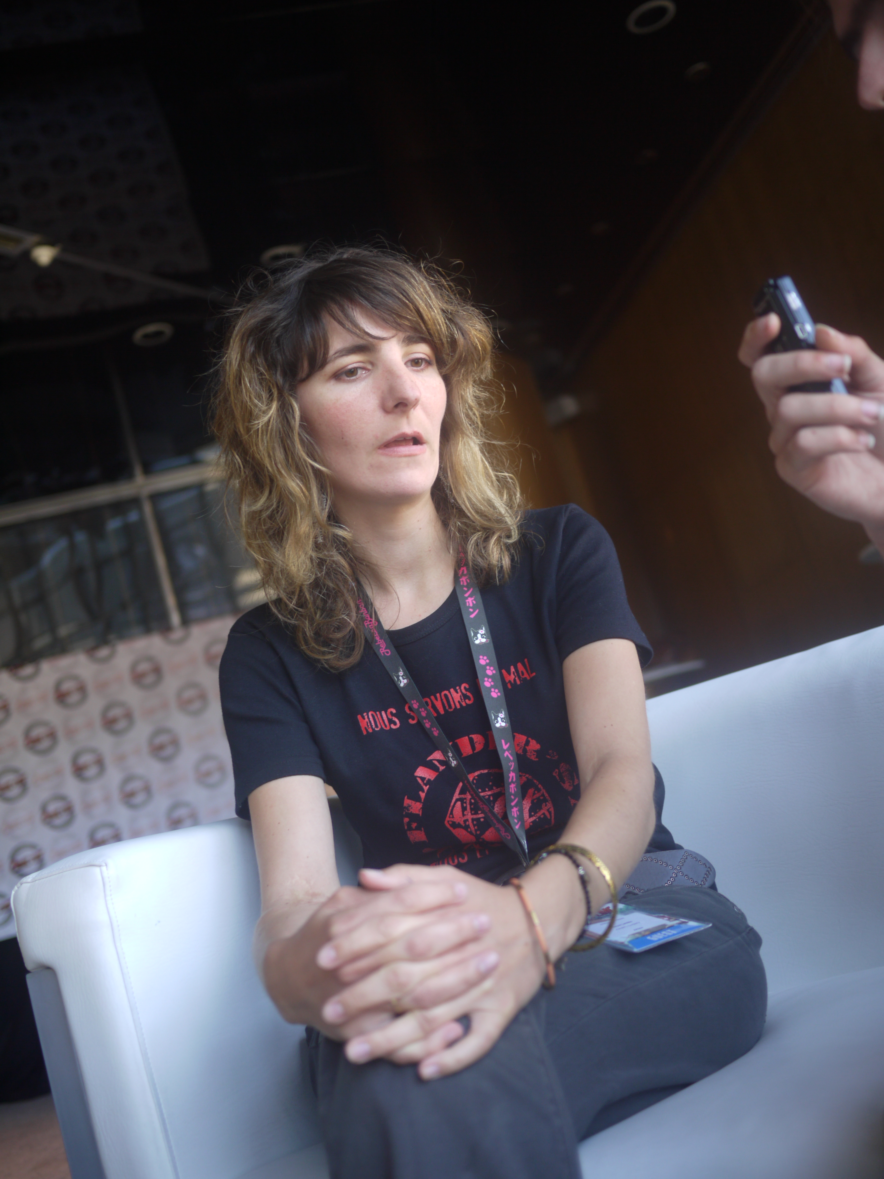 Japan Expo Festival, 11th impact